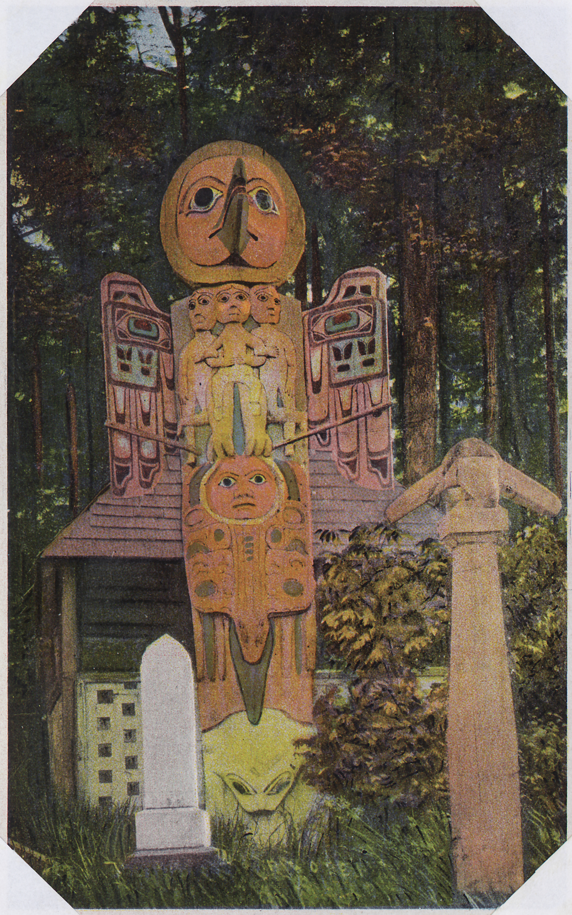 Scope and content: The raven circle at the top represents heaven. The legend is that the raven at flood time flew up to heaven with children in his arms to save them. When the flood subsided, he descended (two figures from top) and lighted on a piece of kelp, represented here by a frog